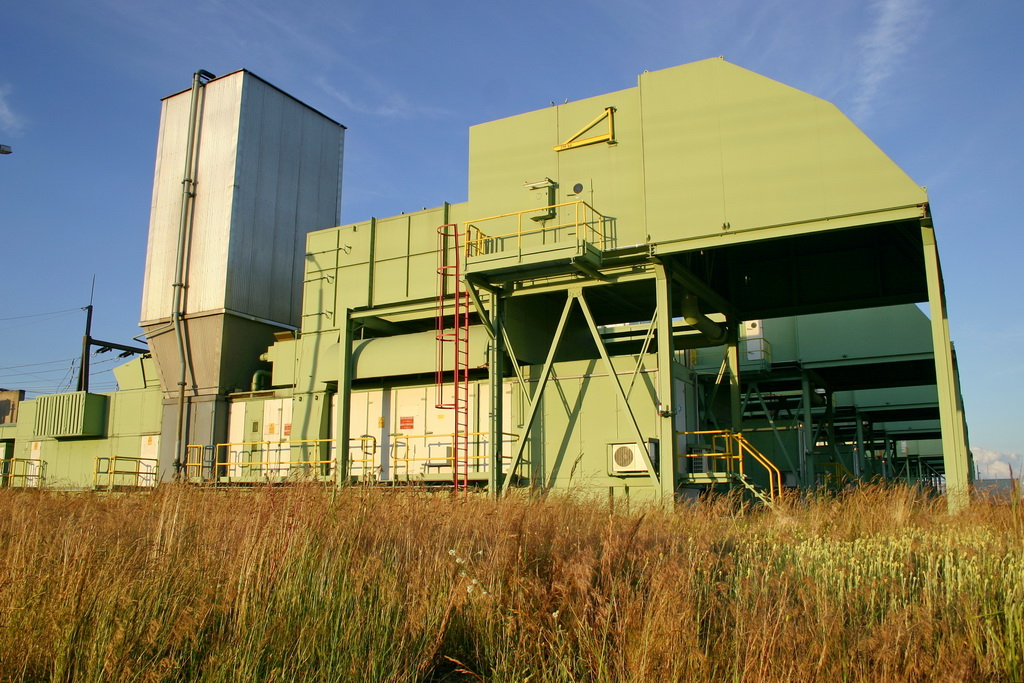 General Electric MS6001B gasturbine H3 at the powerplant Thyrow